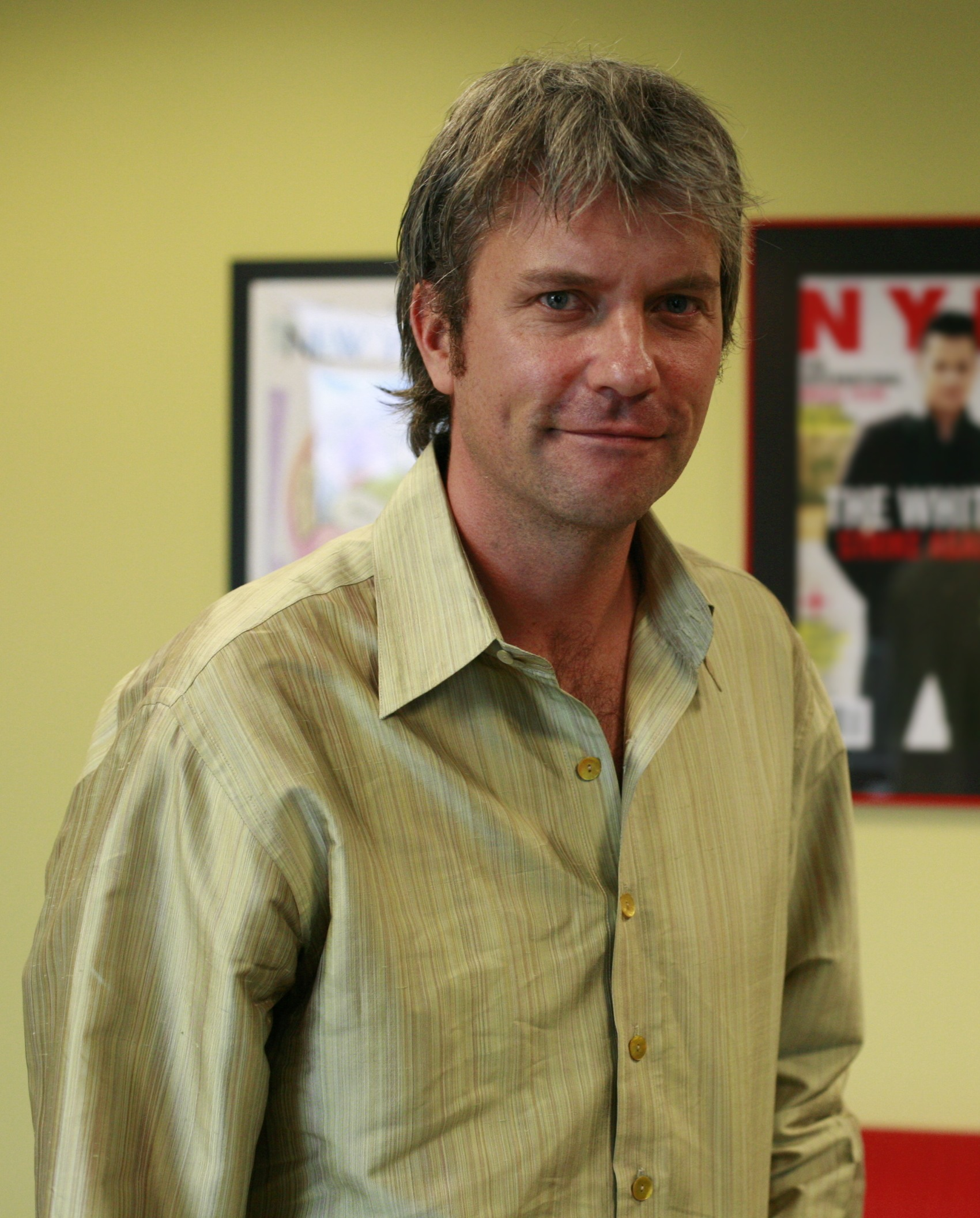 Chris DeWolfe, CEO of MySpace, in his office.